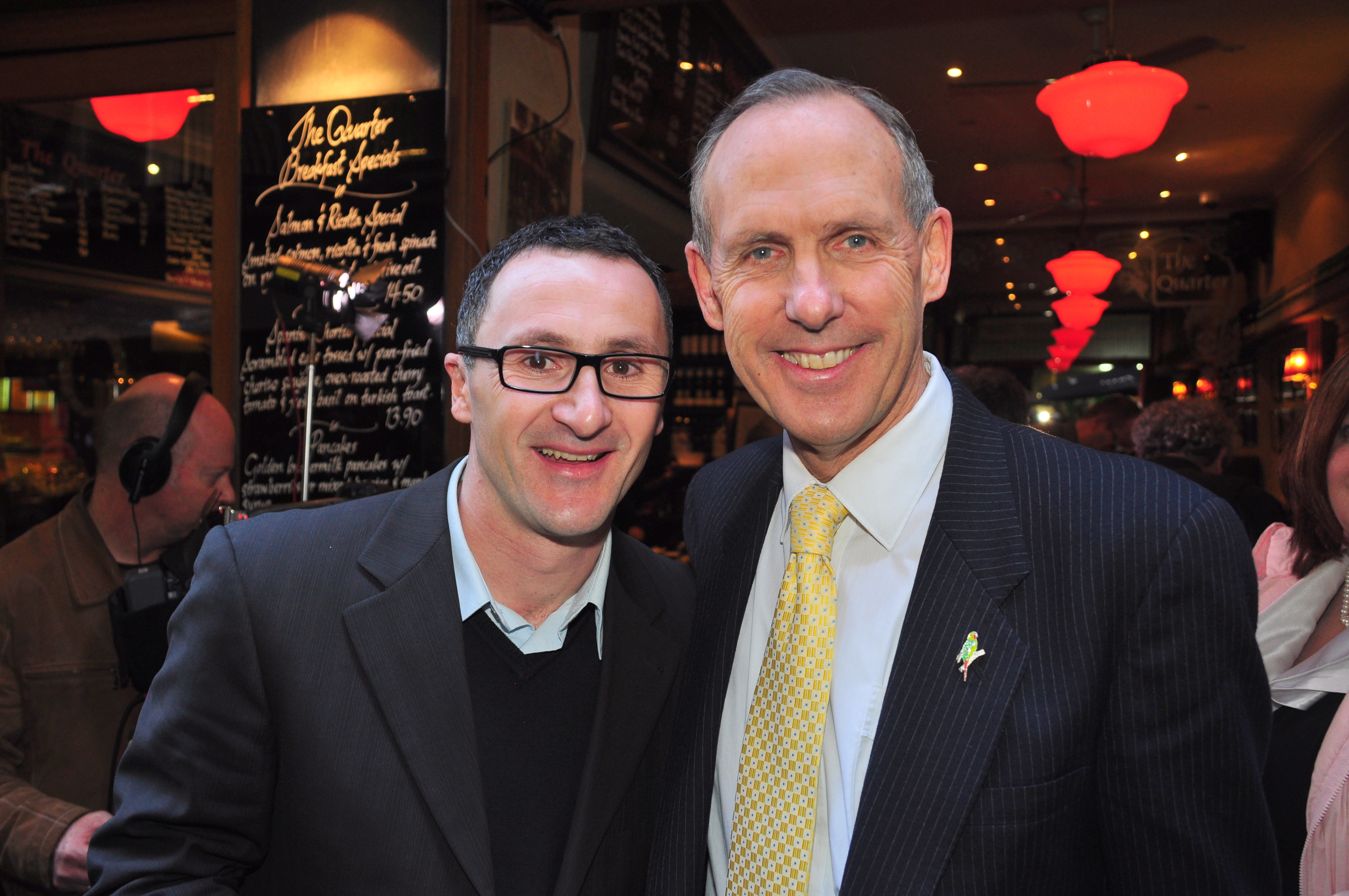 Senator Bob Brown and Richard Di Natale in Melbourne, Australia during the 2010 Australian Federal election campaign.